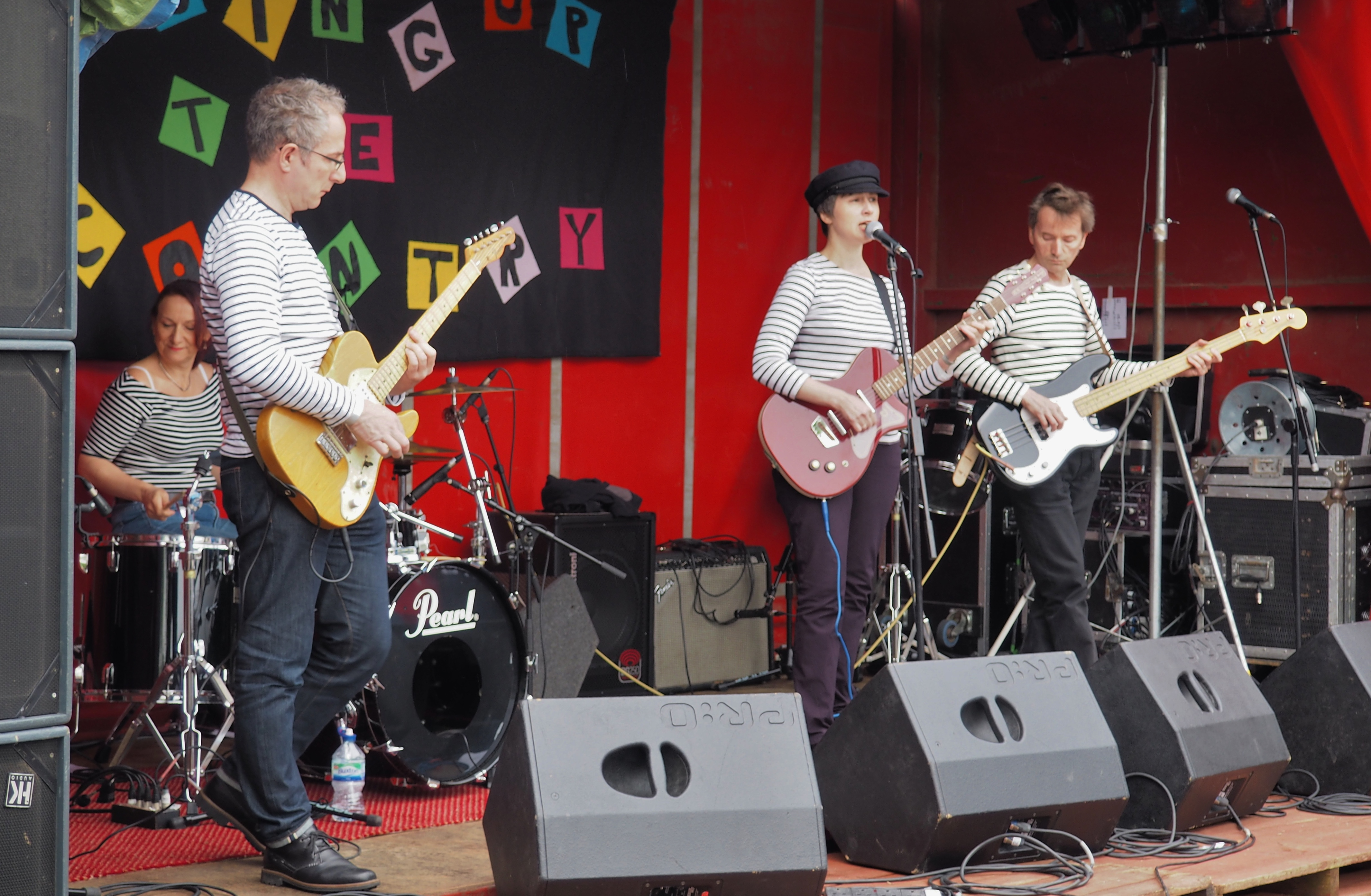 The Would-Be-Goods at Going Up The Country, Congleton, June 13th 2015.